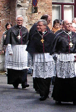 Rochet